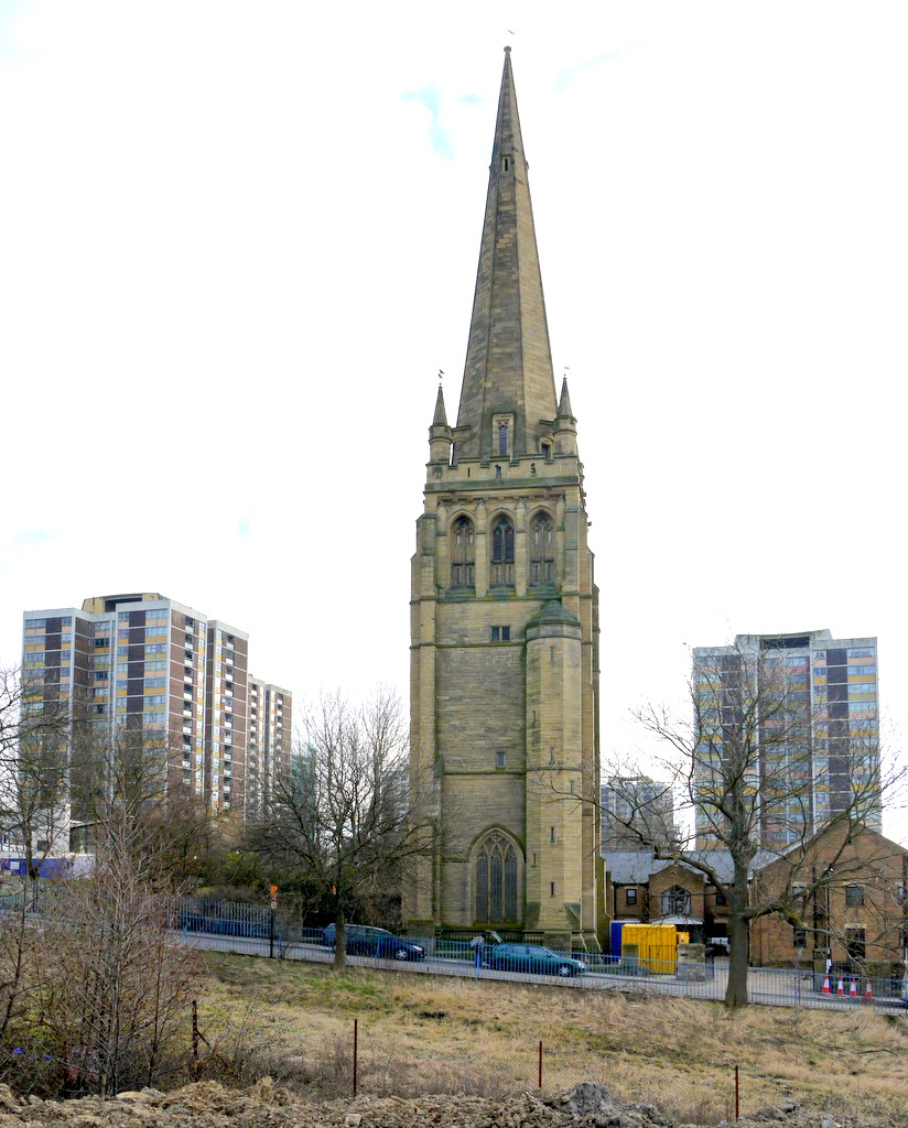 Cruddas Park flats and the west tower of the former St Stephen's parish church, Brunel Terrace, Low Elswick, Newcastle-upon-Tyne, seen from the west